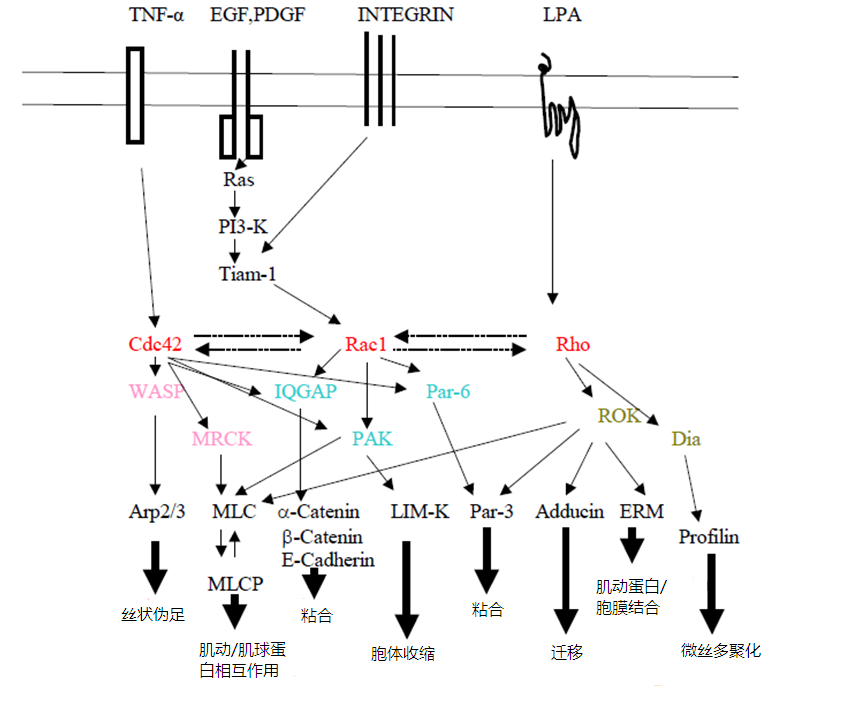 Signalpathway in cell migration